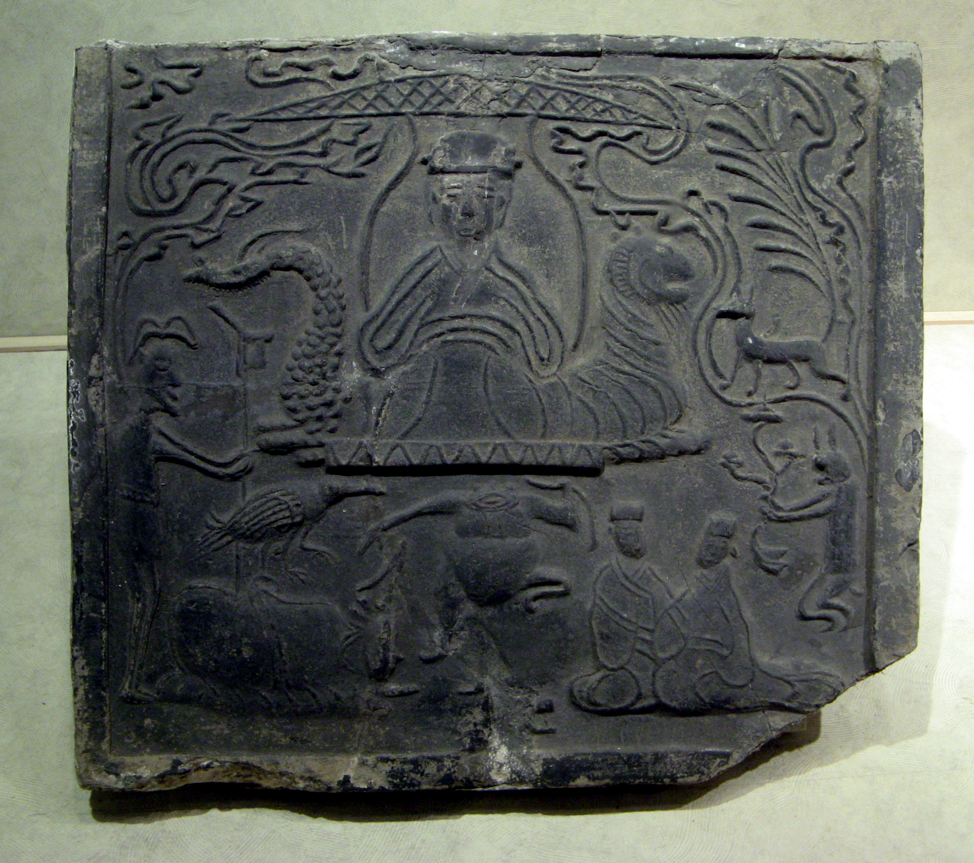 Xiwangmu. Eastern Han Dynasty, 25 AD - 220 AD. Sichuan Provincial Museum, Chengdu The Queen Mother of the West sits upon a throne, attended by a hare on the right who presents a candelabra; the standing attendant on the left is stirring the elixir of immortality in a cauldron, with a pole that is surmounted by some sort of standard.